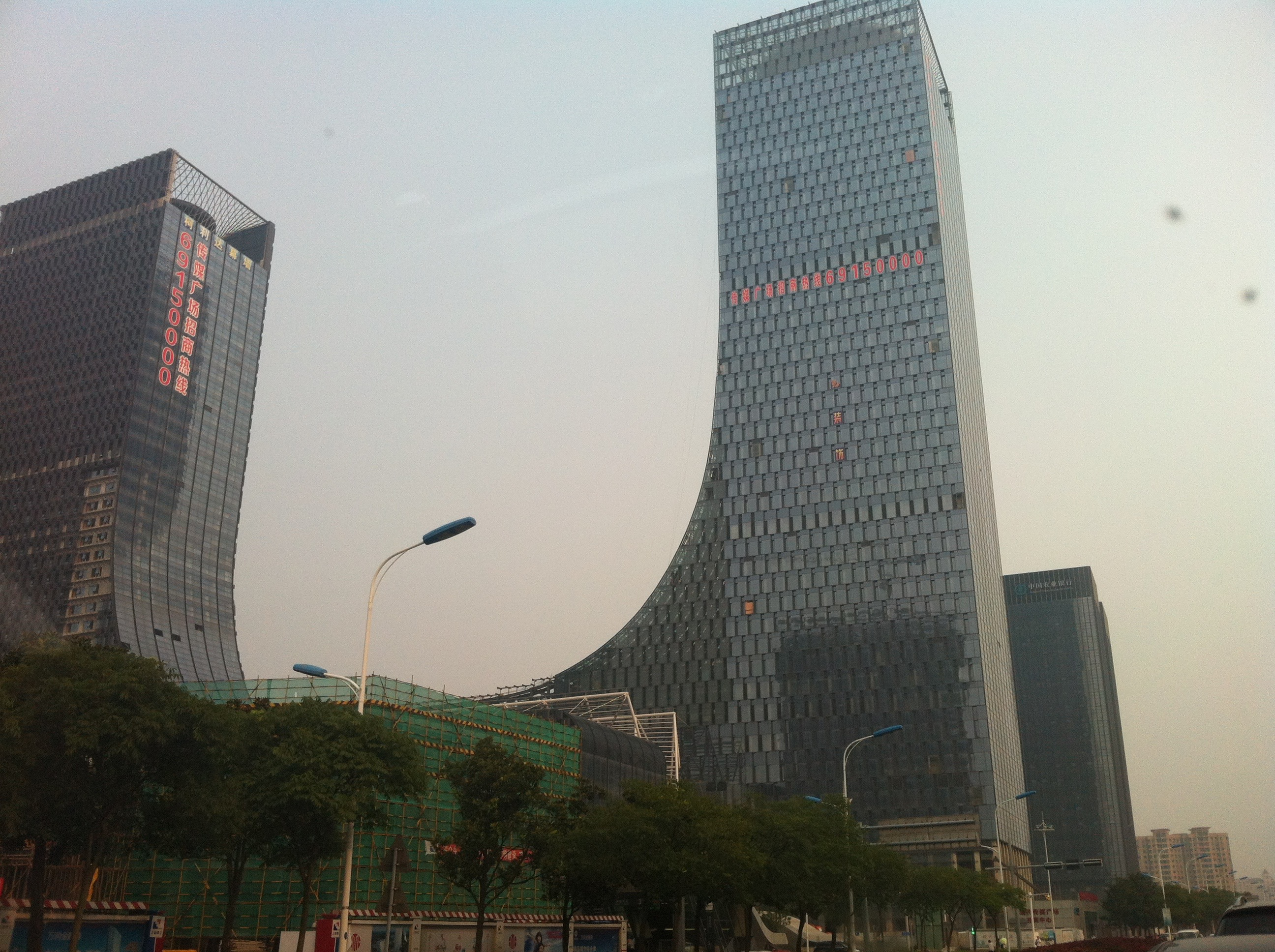 Suzhou Modern Media Plaza, the new headquarters of Suzhou Broadcast System.